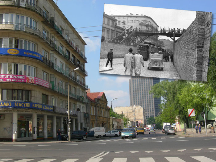 Place of the former bridge, Chłodna street, which link the small (left) and big (right) ghetto of Warsaw. Bundesarchiv_Bild_101I-270-0298-14,_Polen,_Ghetto_Warschau